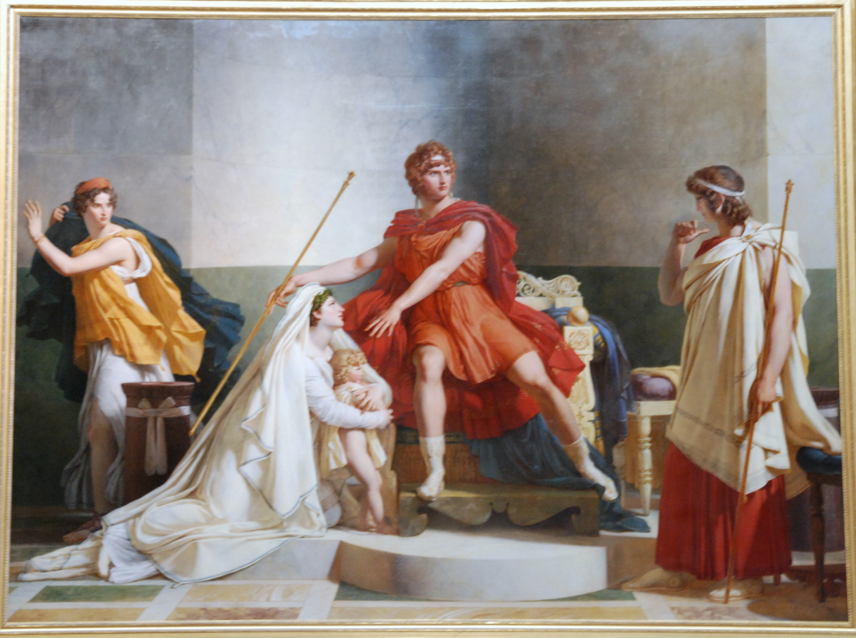 Andromache and Pyrrhus